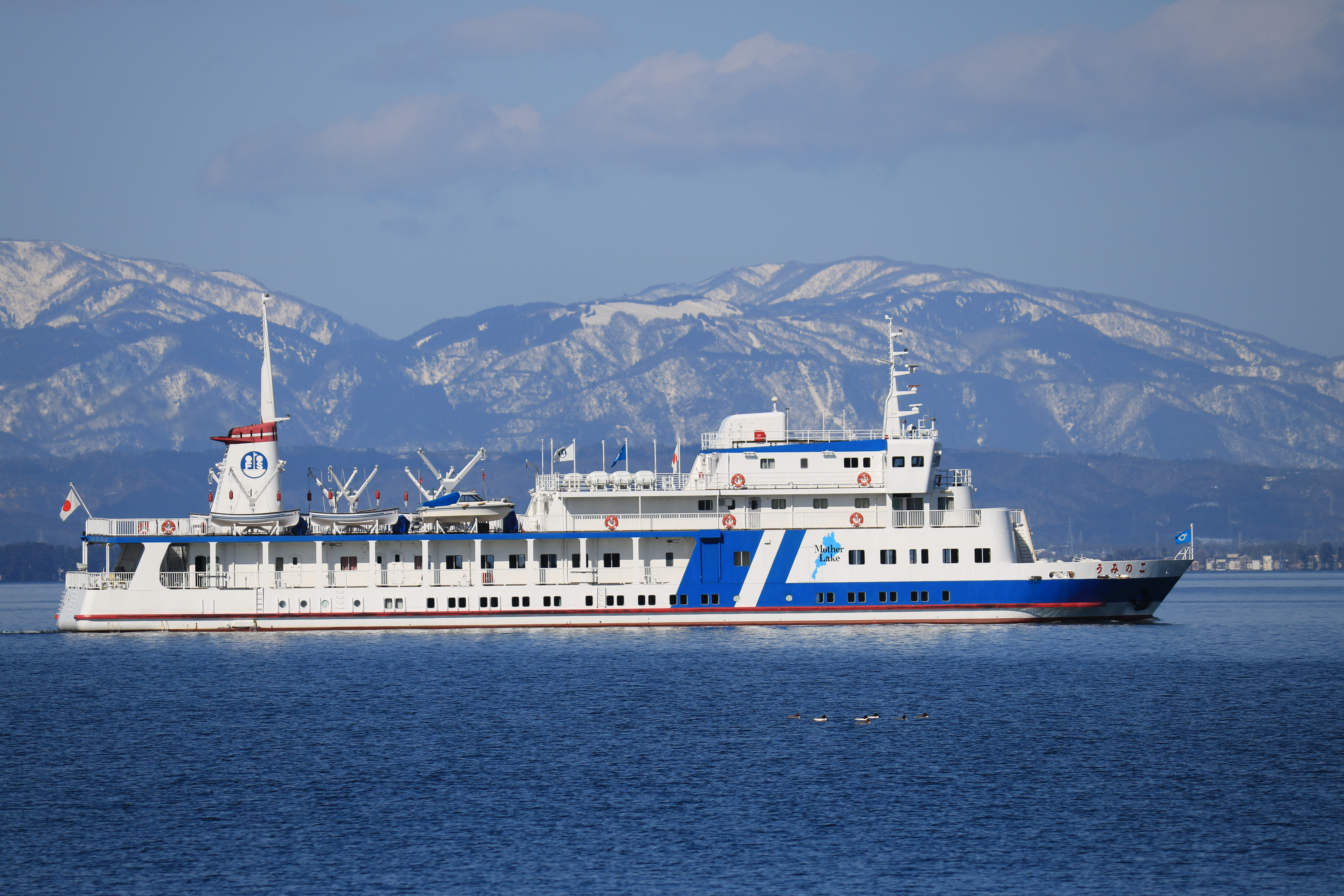 Uminoko (ship, 1983) in Lake Biwa and Mount Hakodate seen from Oki Island in Shiga prefecture, Japan. Canon EOS Kiss X8i